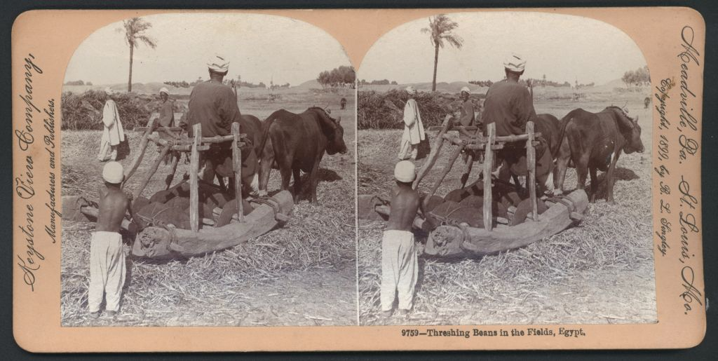 A small boy and a man thresh beans in the filed of Egypt